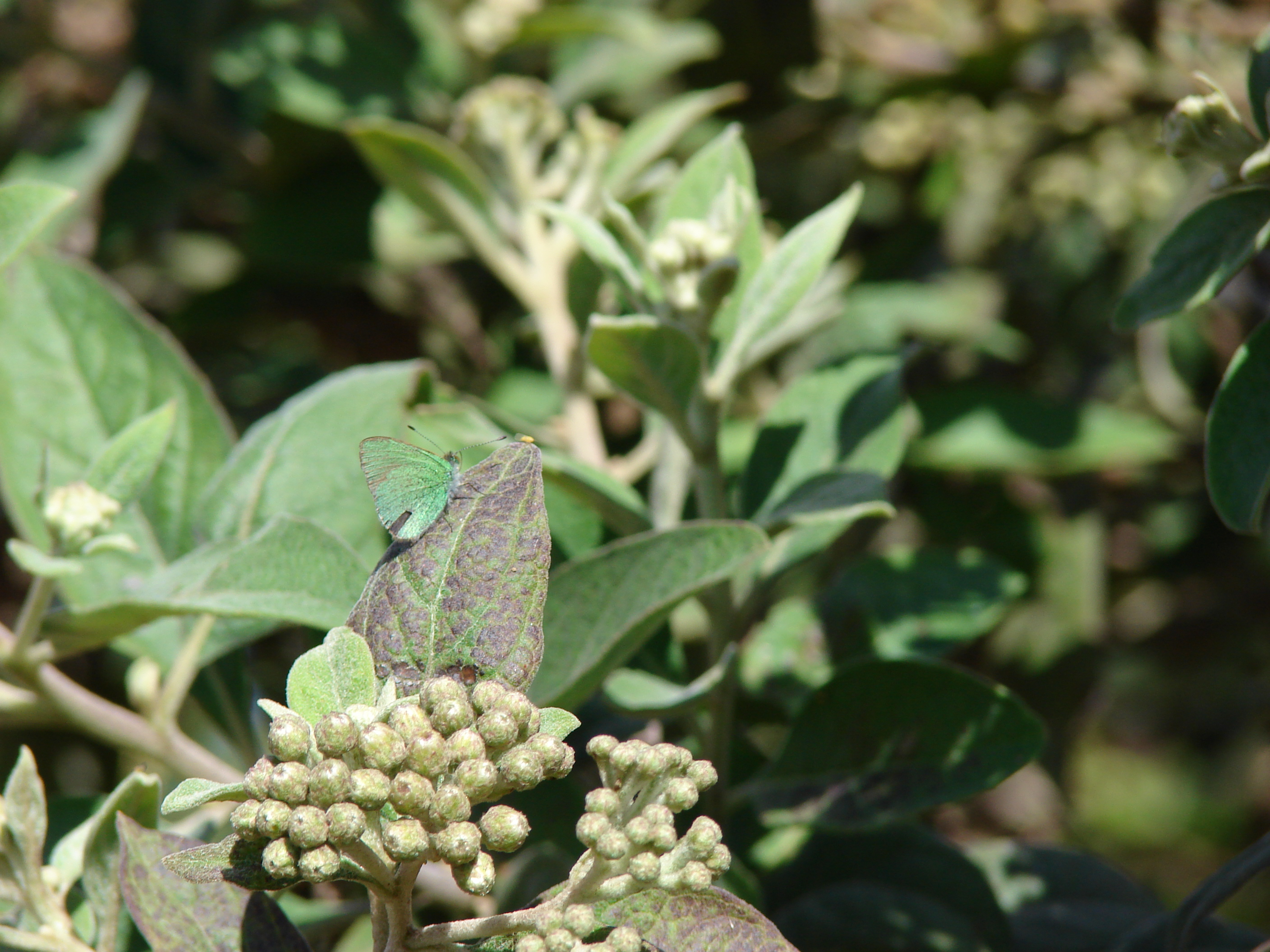 Pluchea carolinensis (leaves with koa butterfly). Location: Kahoolawe, Ukumehame rain koa